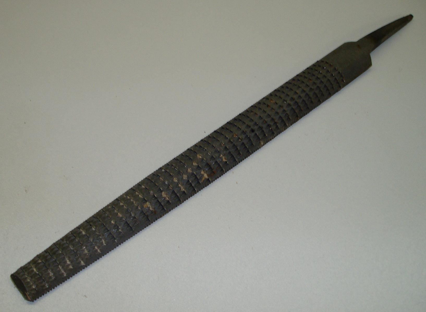 Picture of wood rasp (dated to 1919) taken 16 October 2005 by Luigi Zanasi (myself) on my workbench using a Olympus digital camera.